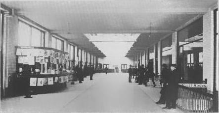 The waiting platform at the Indianapolis Traction Terminal.